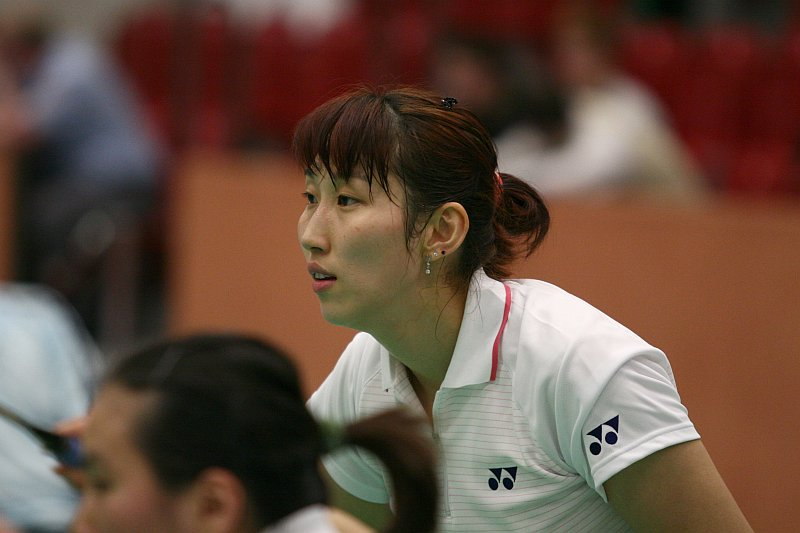 Lee Hyo Jun